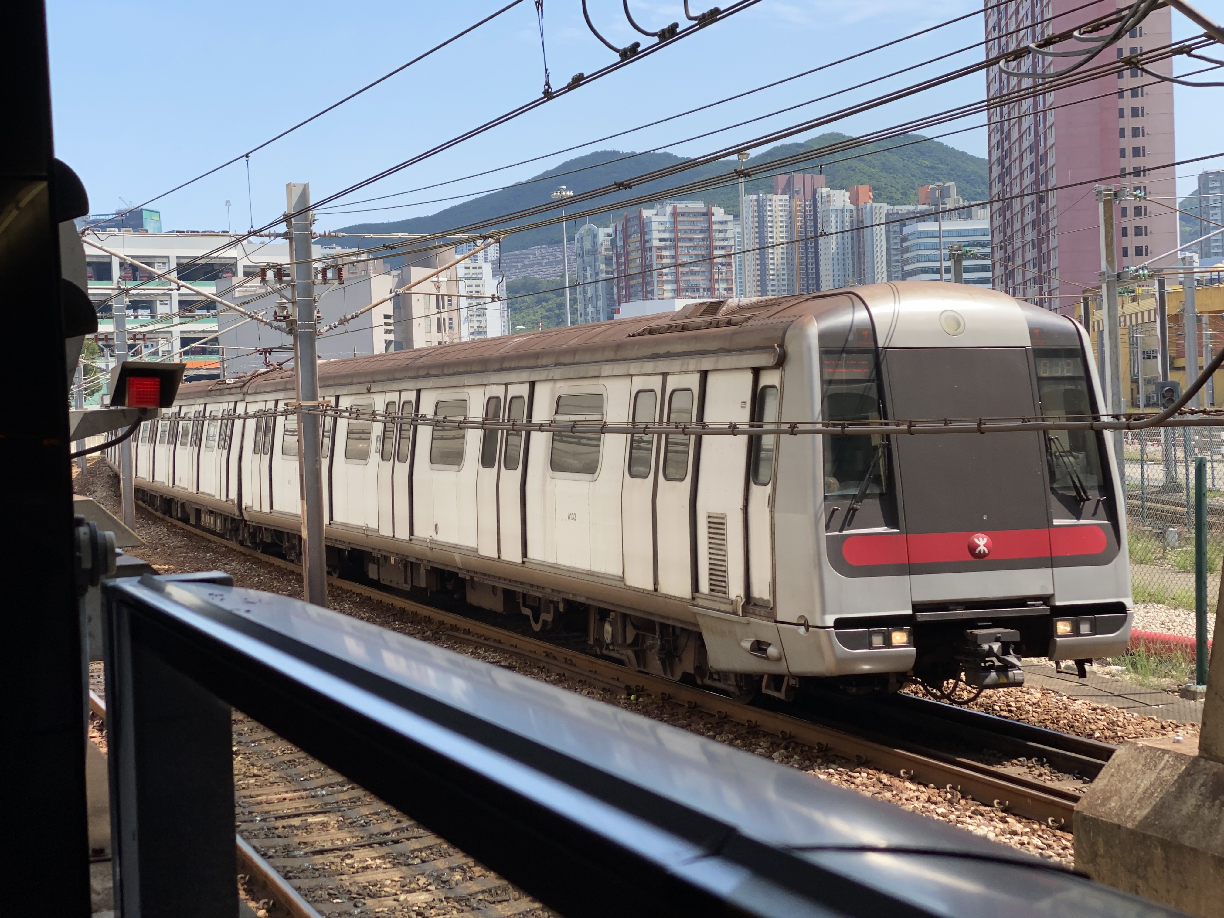 中文（香港）: This photo is taken in Heng Fa Chuen.